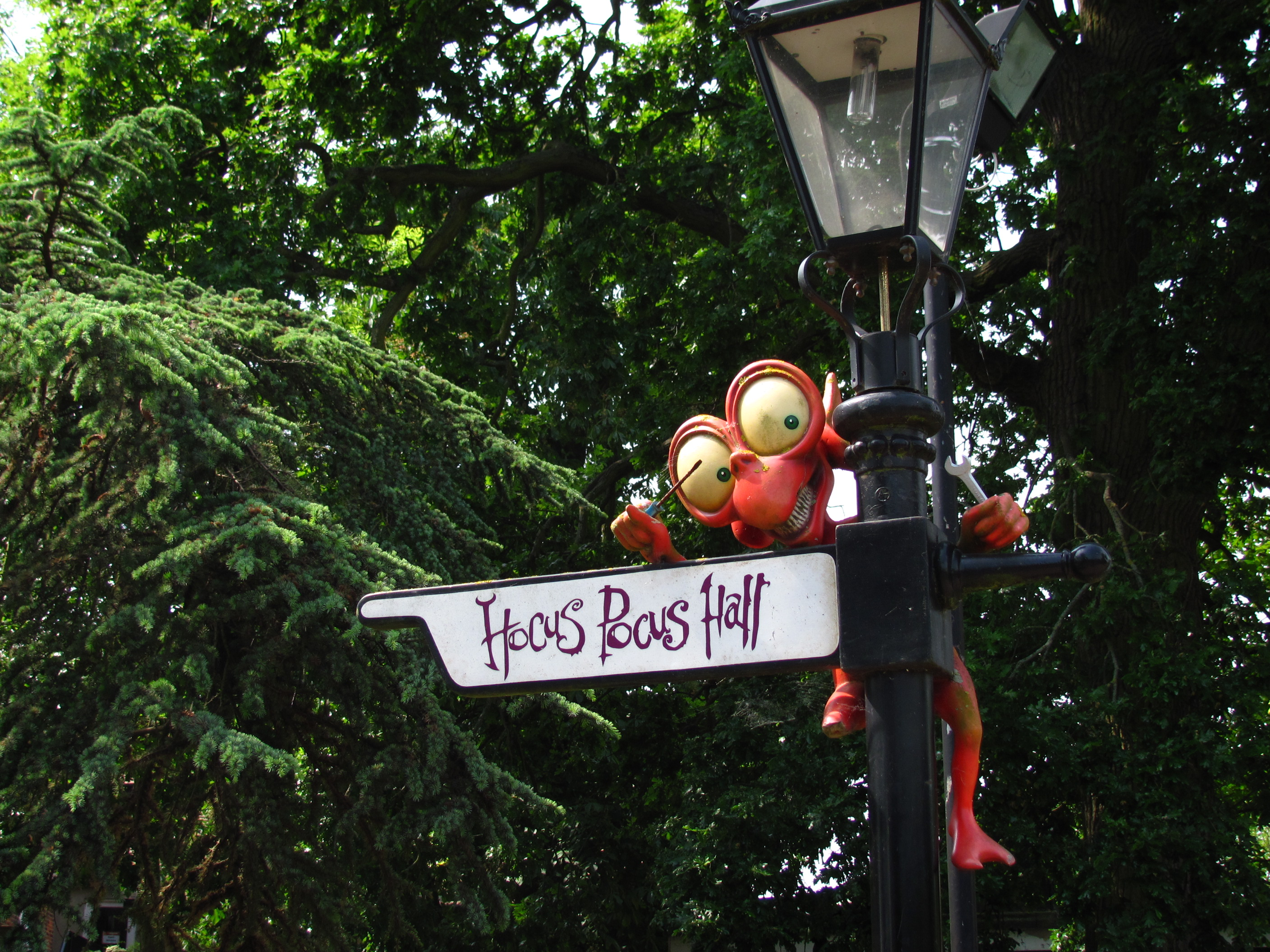 Sign for Hocus Pocus Hall